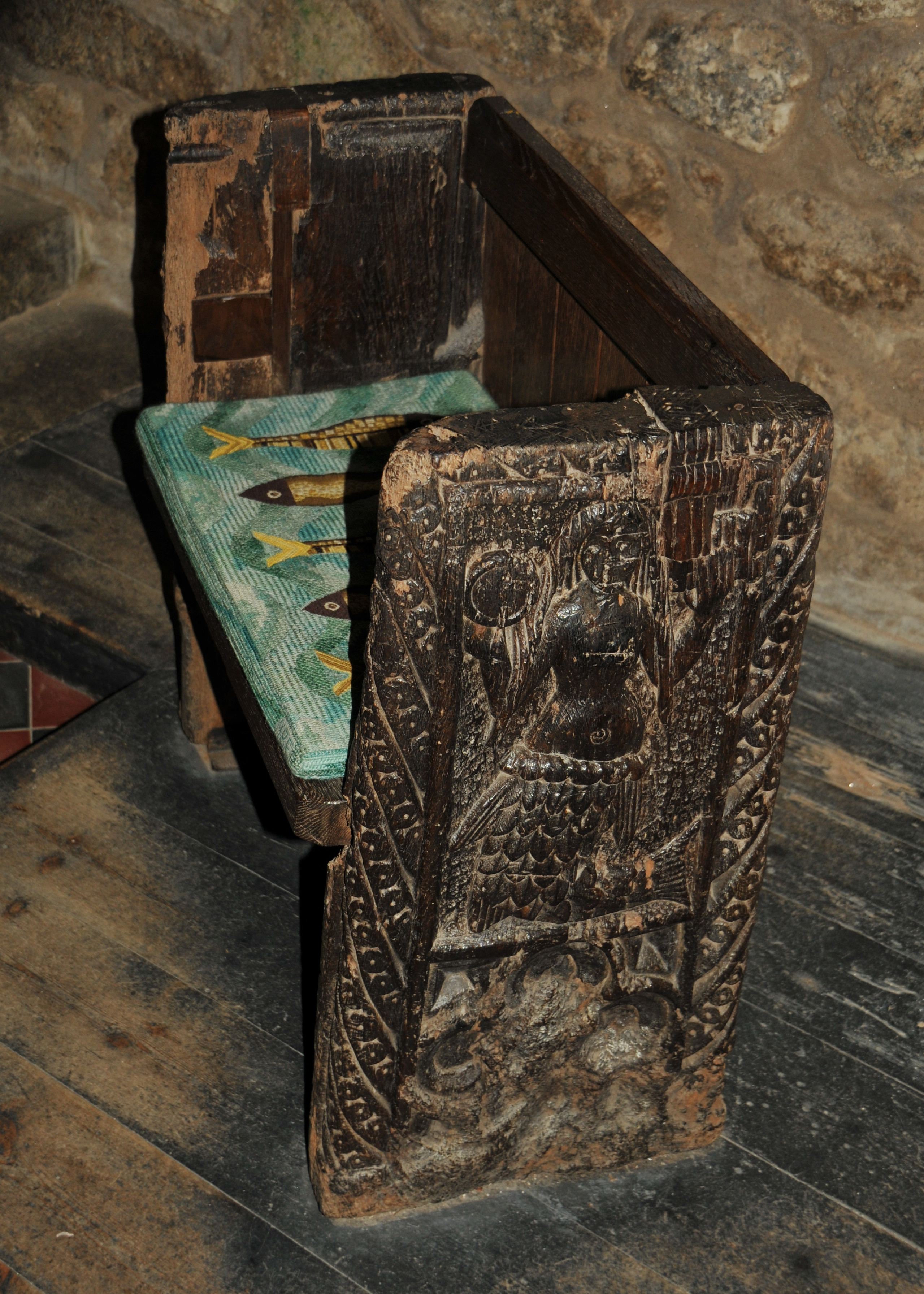 A 600-year-old chair depicting the Mermaid of Zennor, a figure in Cornish folklore, in St. Senara's church, Zennor.